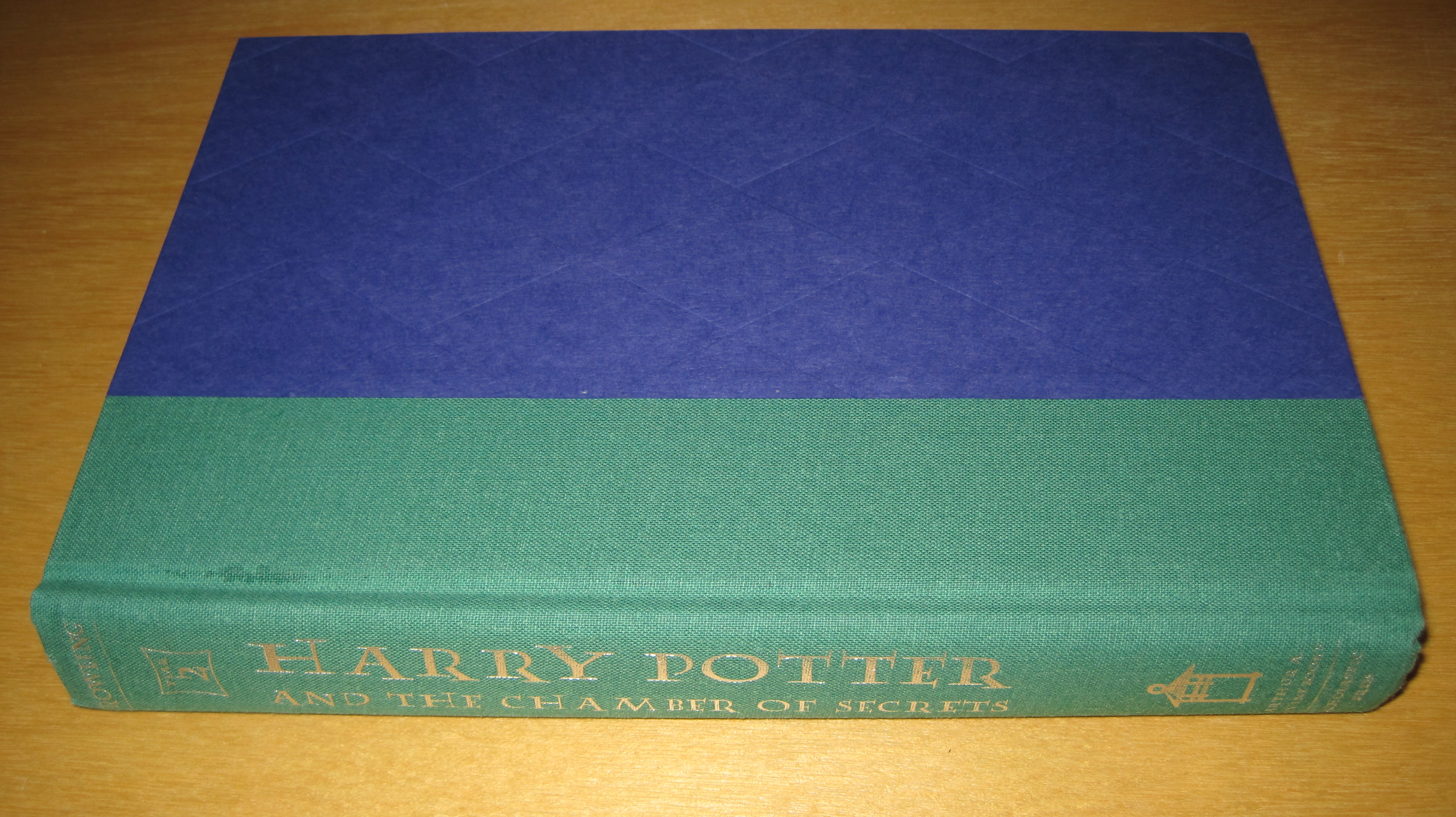 The first American edition of Harry Potter and the Chamber of Secrets published by Scholastic, without its dust jacket.